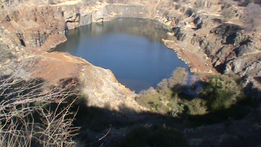 This is the defunct opencast mine west of of the now defunct Empress Nickel Mine Main Shaft.